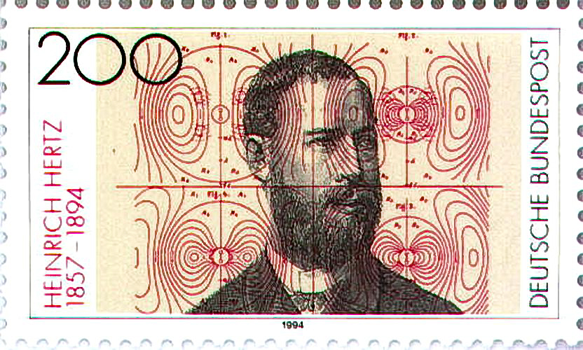 1994 Deutsche Bundespost postage stamp honouring Heinrich Hertz